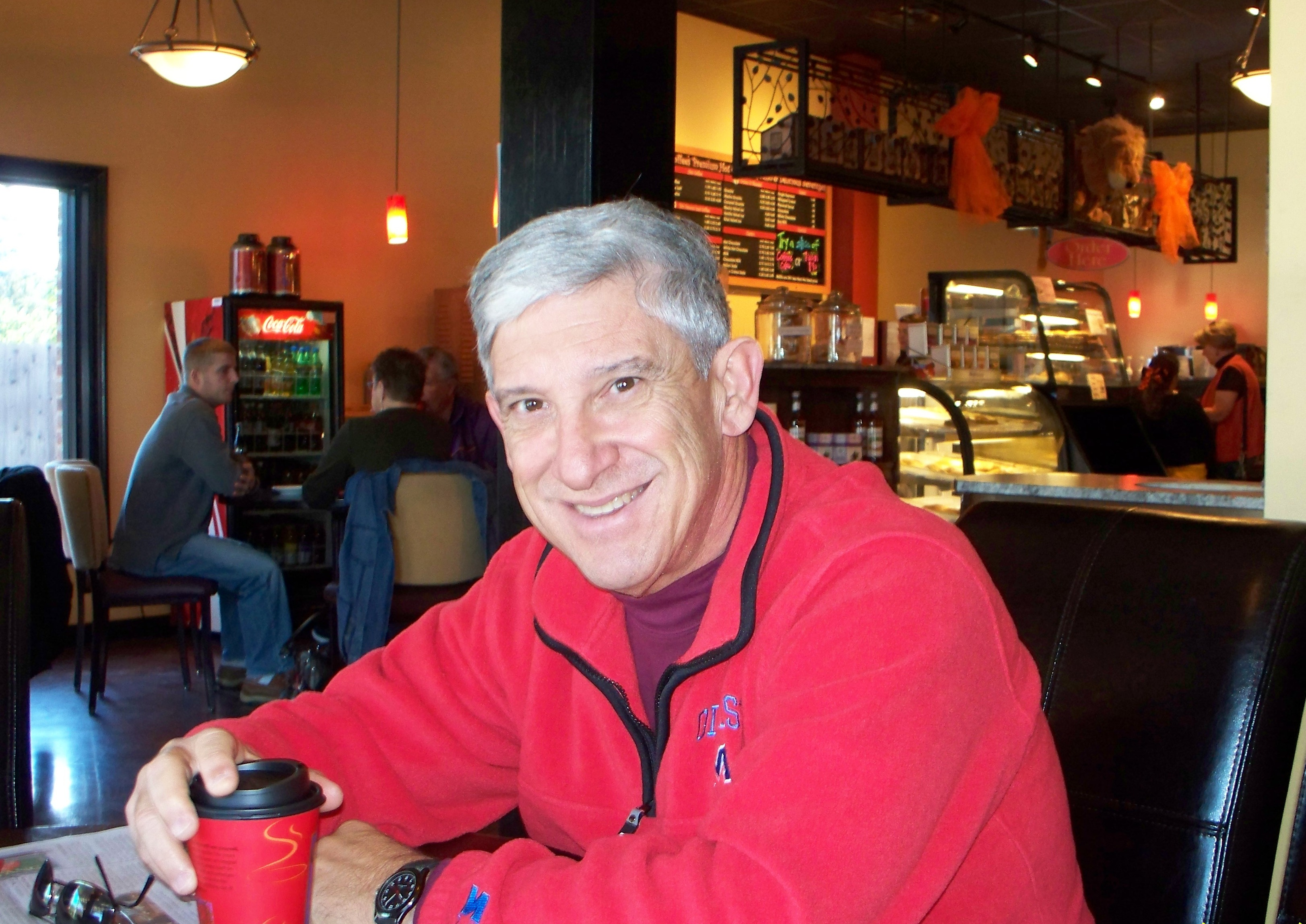 Dr Nick Bruno in PJ's University Avenue restaurant in Hammond, Louisiana. PJ's is a chain of coffeehouses based in New Orleans. Dr Nick J. Bruno is Vice President for Business and Finance with the University of Louisiana System.